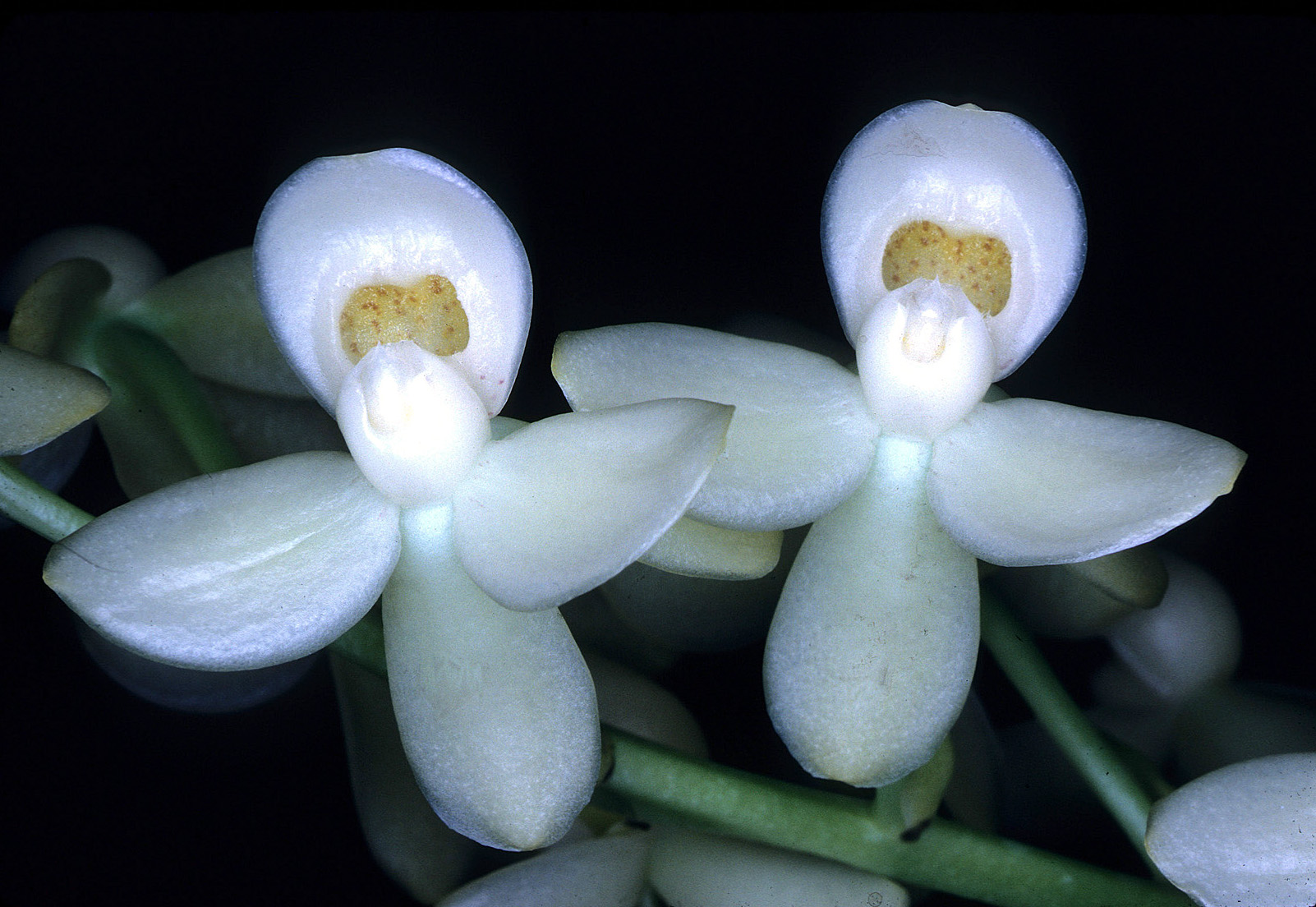 Plant collected in Panama.